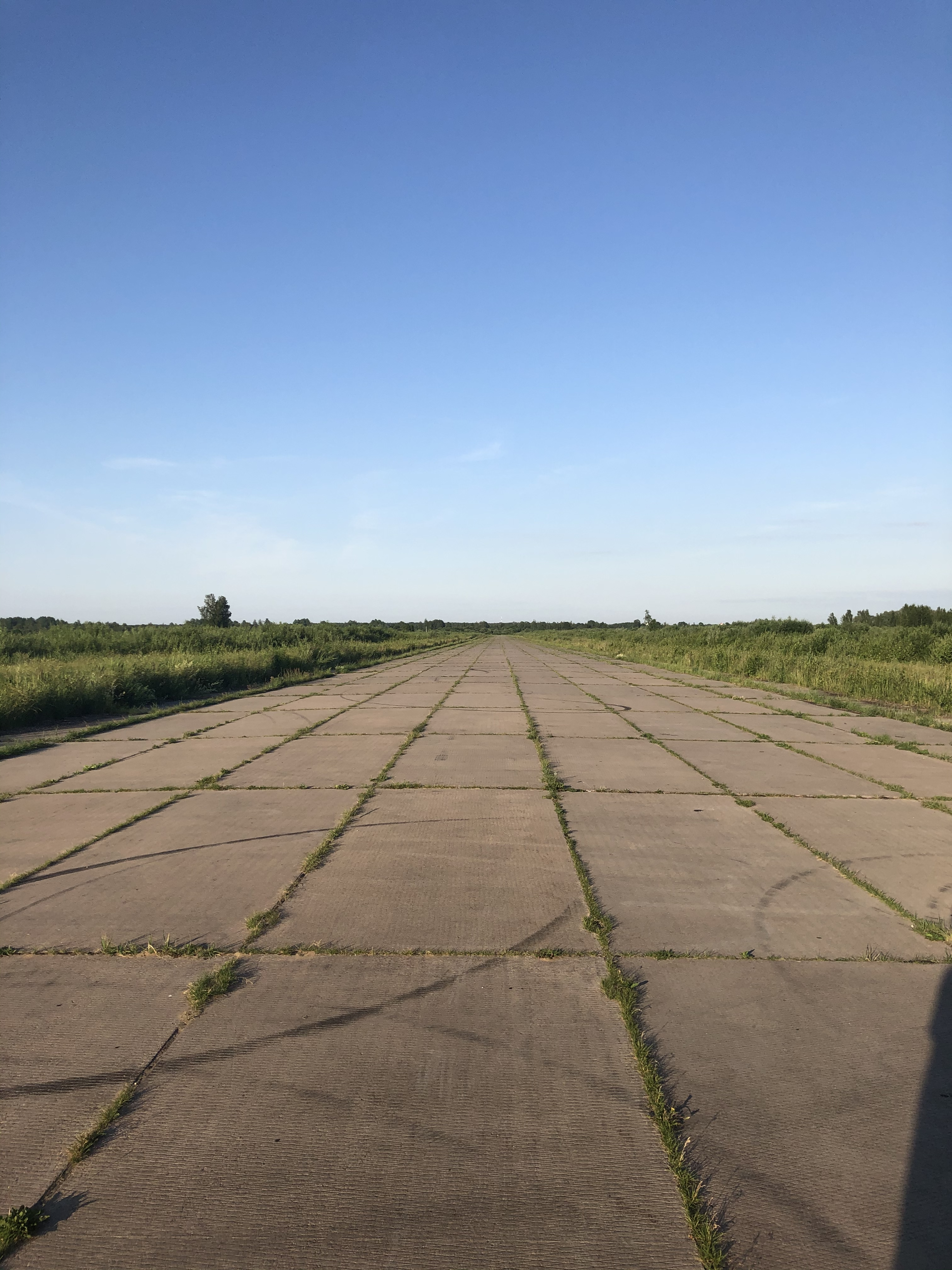 Former Soviet Airbase Jelgava. Pic taken June 2020